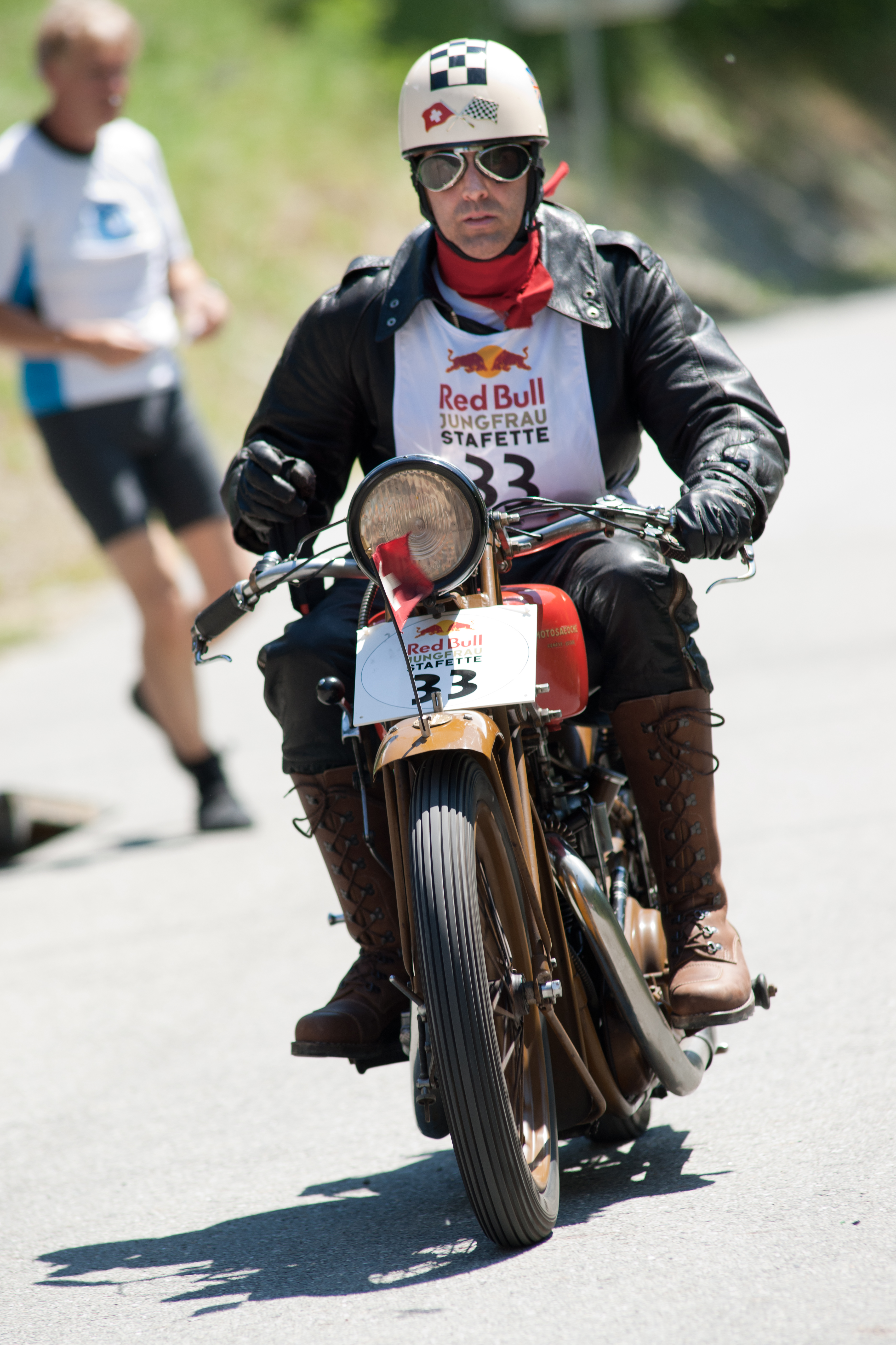 The making of this document was supported by Wikimedia CH. (Submit your project!) For all the files concerned, please see the category Supported by Wikimedia CH.